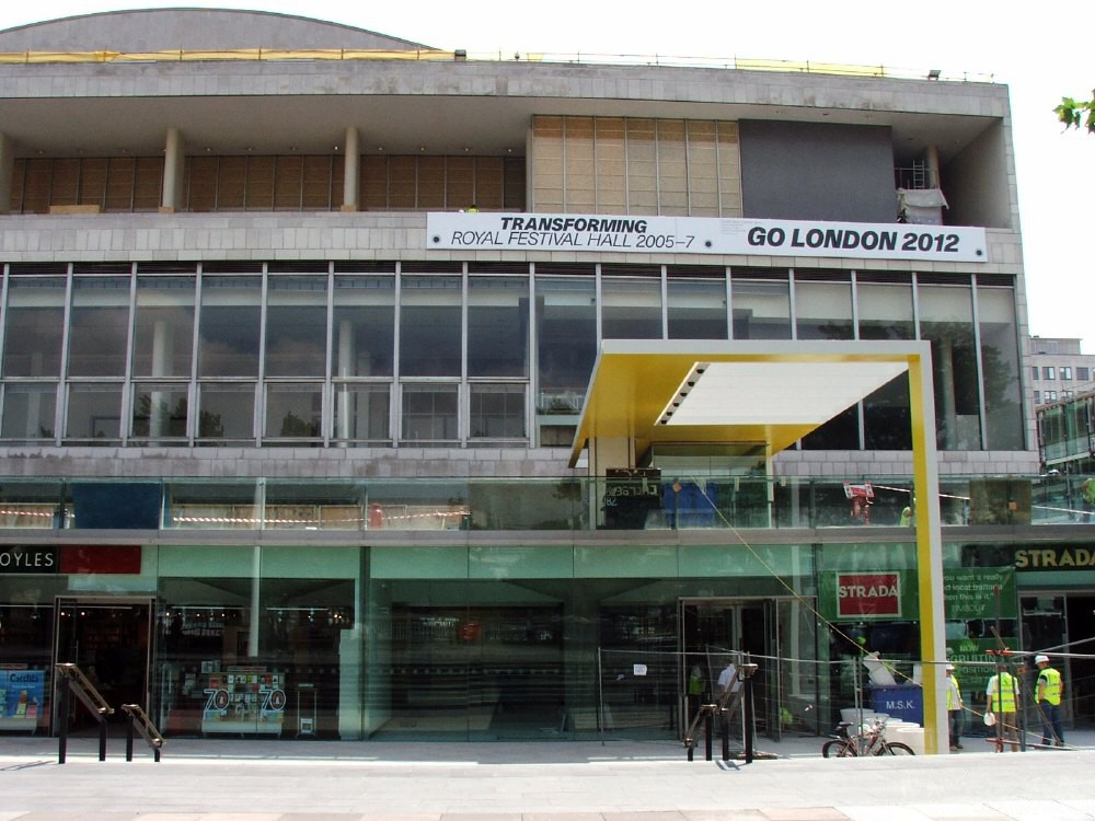 The Royal Festival Hall undergoing renovation work.